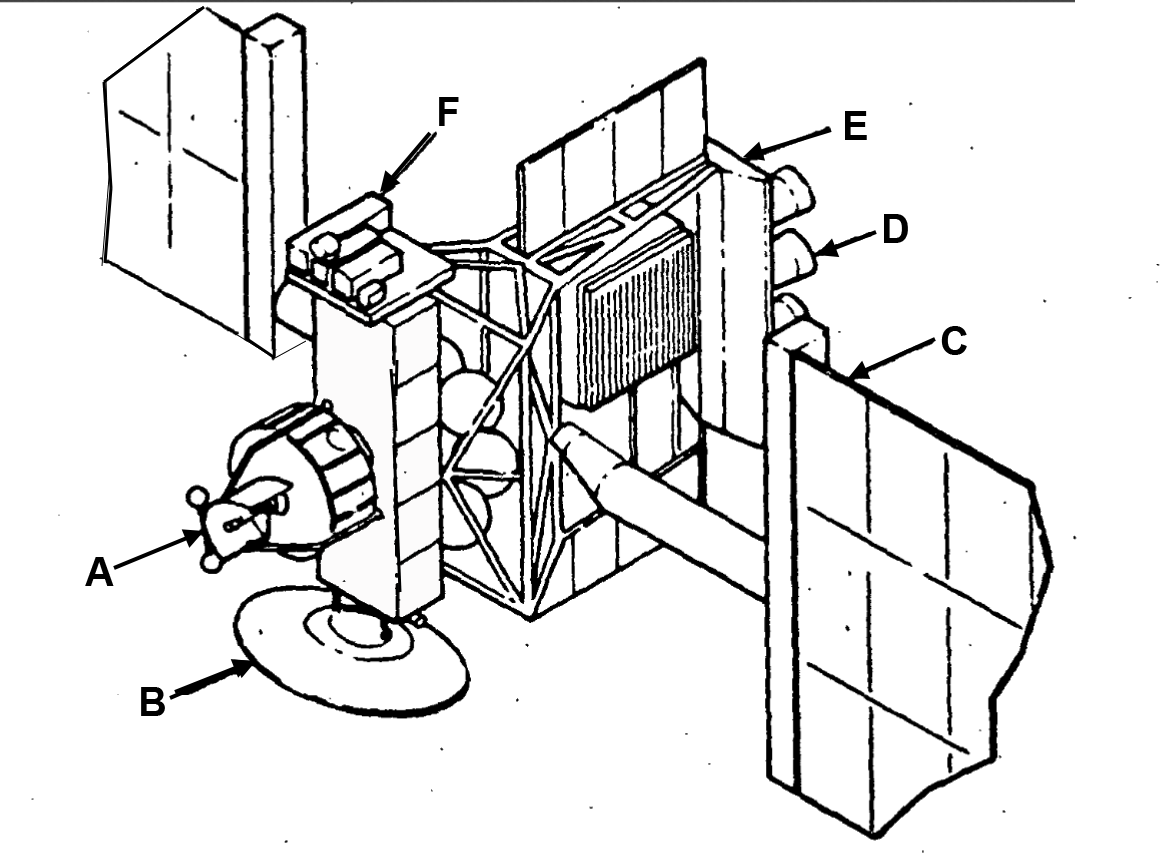 International-Comet-Mission (1979)